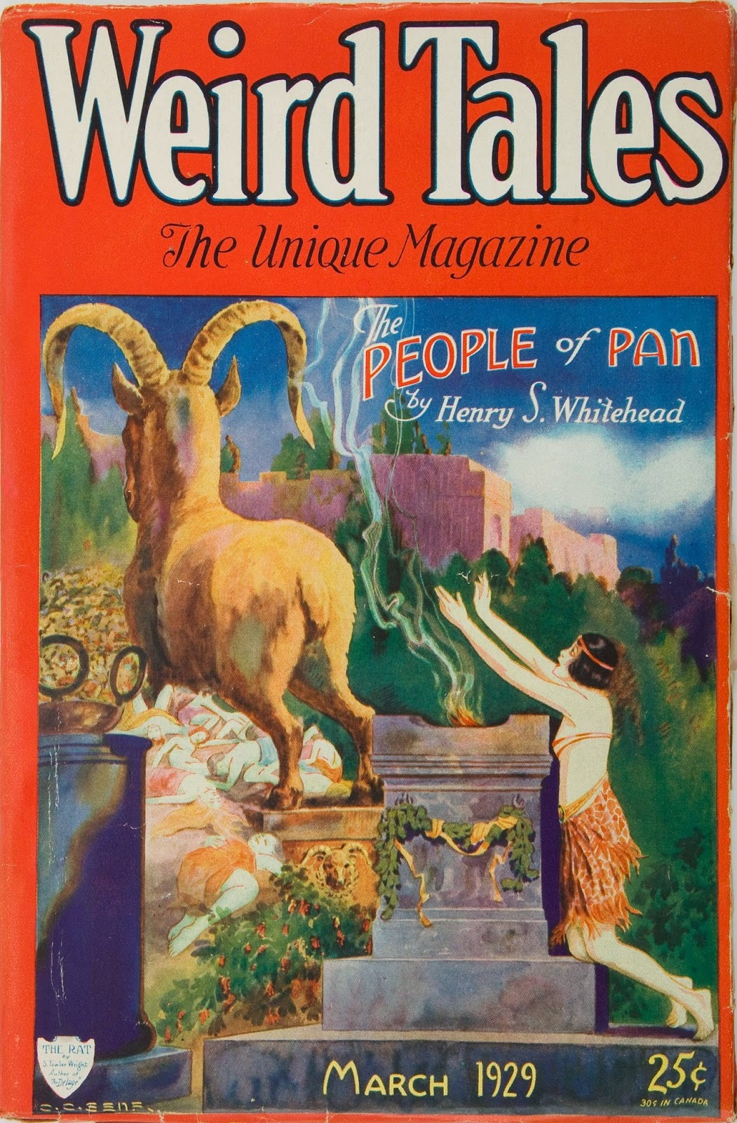 Cover of the pulp magazine Weird Tales (March 1929, vol. 13, no. 3) featuring The People of Pan by Henry S. Whitehead. Cover art by C. C. Senf.